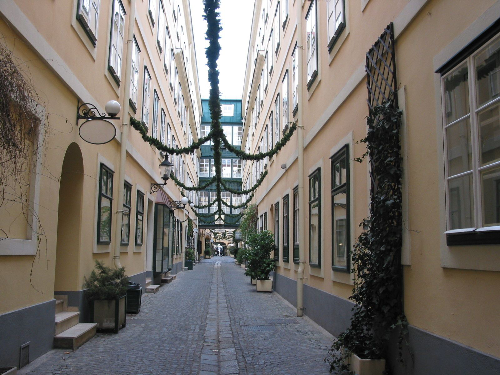 Sünnhof, Vienna III, 2003-12-07 selfmade photo